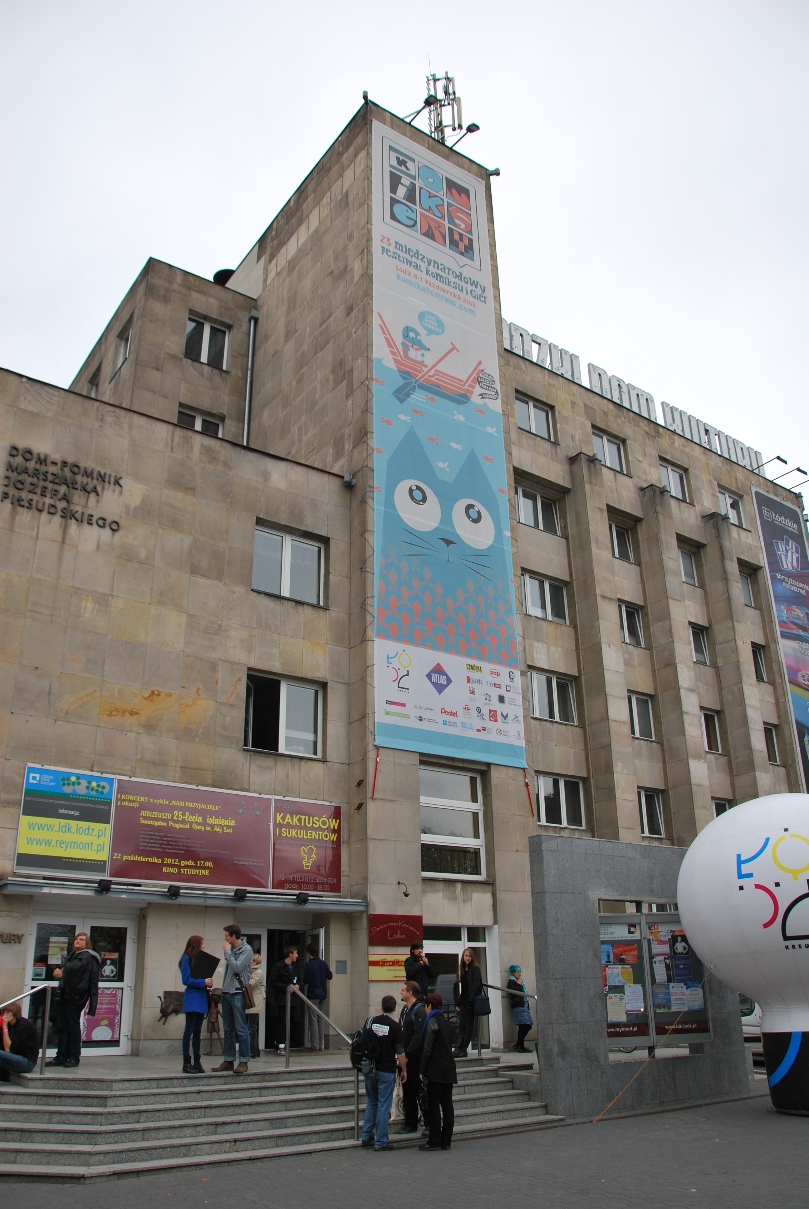 23 International Festival of Comics and Games in Łódź